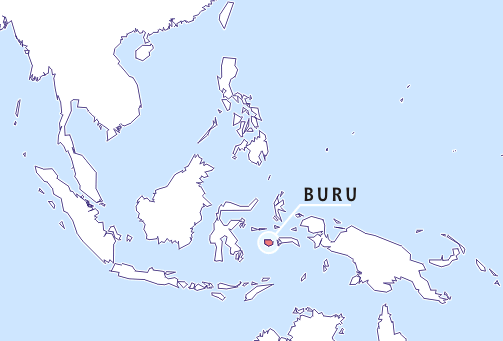 Location of Buru